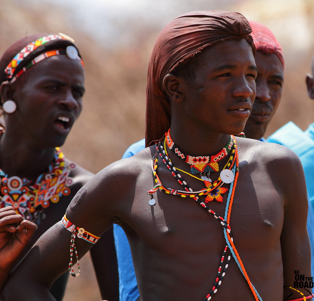 A handsome young Samburu.